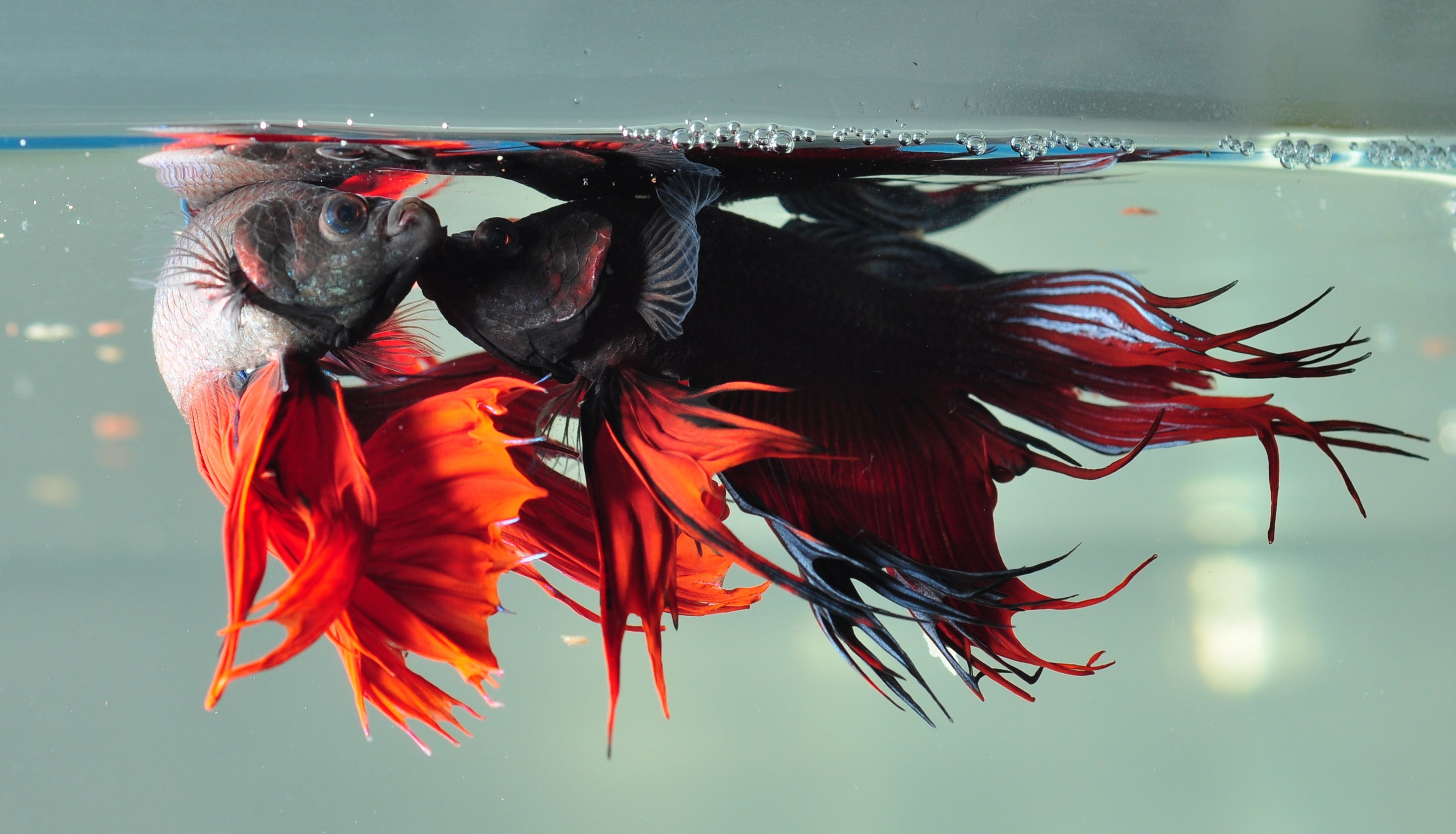 Betta fighting